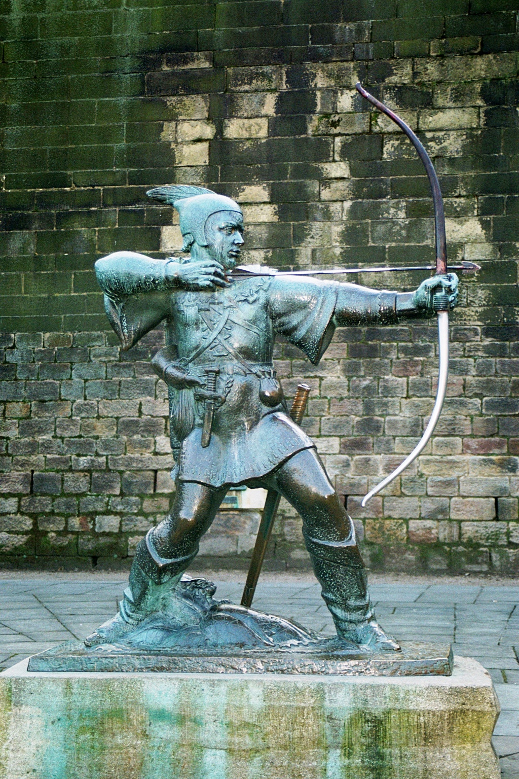 The Robin Hood Memorial in Nottingham near the castle. Sculptor: James Woodford. picture taken by me in 2001 I license it to GNU-FDL Other version: File:Nottingham montage.jpg